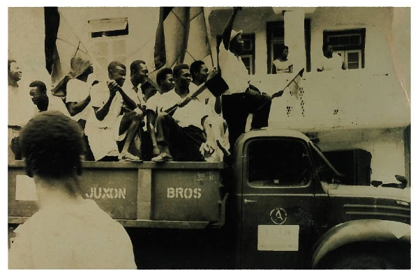 Edward Wilmot Blyden III and the Sierra Leone Independence Movement (SLIM) campaigning for elections in pre-independence Sierra Leone.